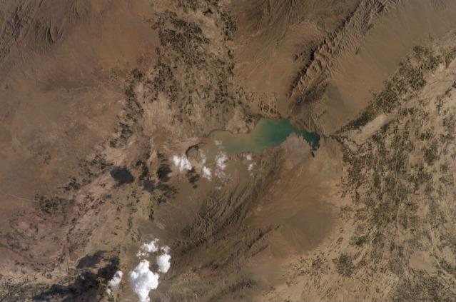 Astronaut Photography of Band E Sardeh Dam Reservoir from the International Space Station (ISS014-E-19700). The top of the photo points southwards and the right points westwards.